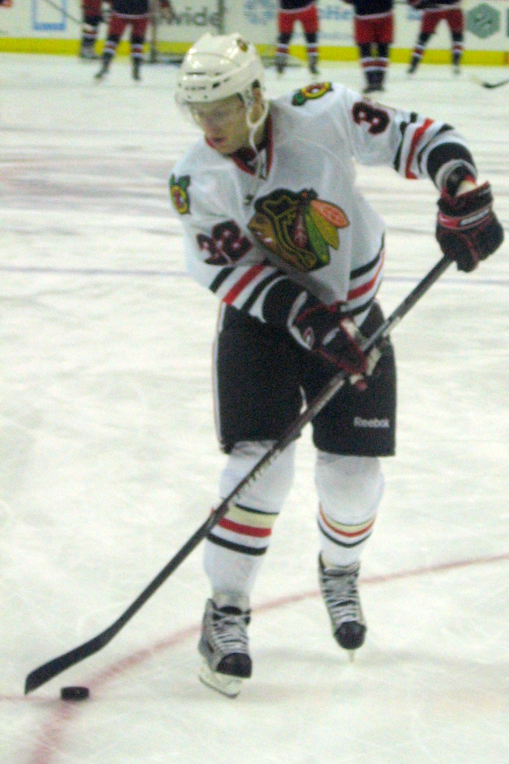 Kris Versteeg of the Chicago Blackhawks warms up prior to their game against the Columbus Blue Jackets.